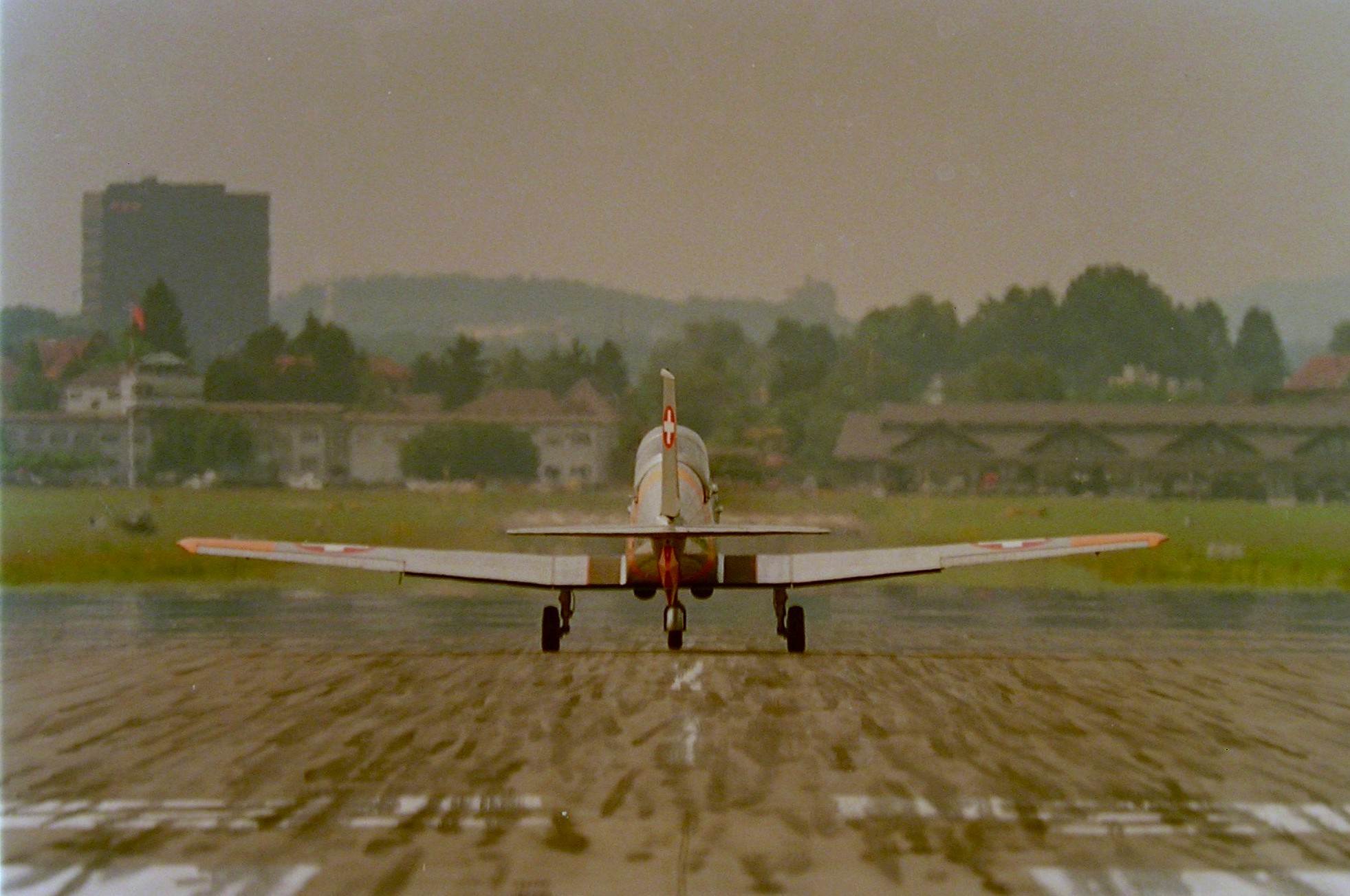 P-3 ready for takeoff on runway 29 at Dubendorf